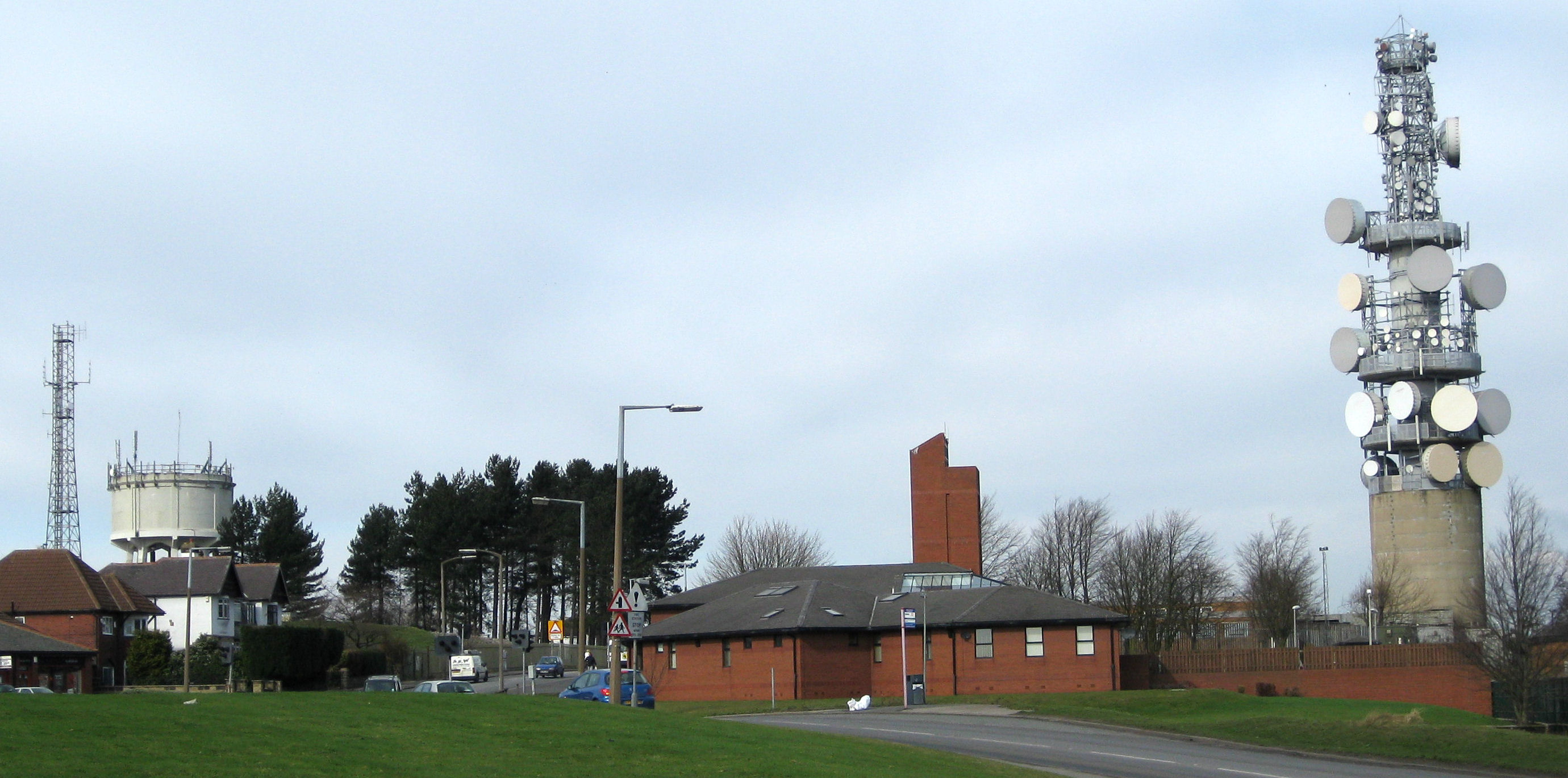 Tinshill, Leeds, showing Tinshill water tower, Cookridge fire station LS16 7BF and Tinshill BT Tower. Viewed from south, on Otley Old Road.